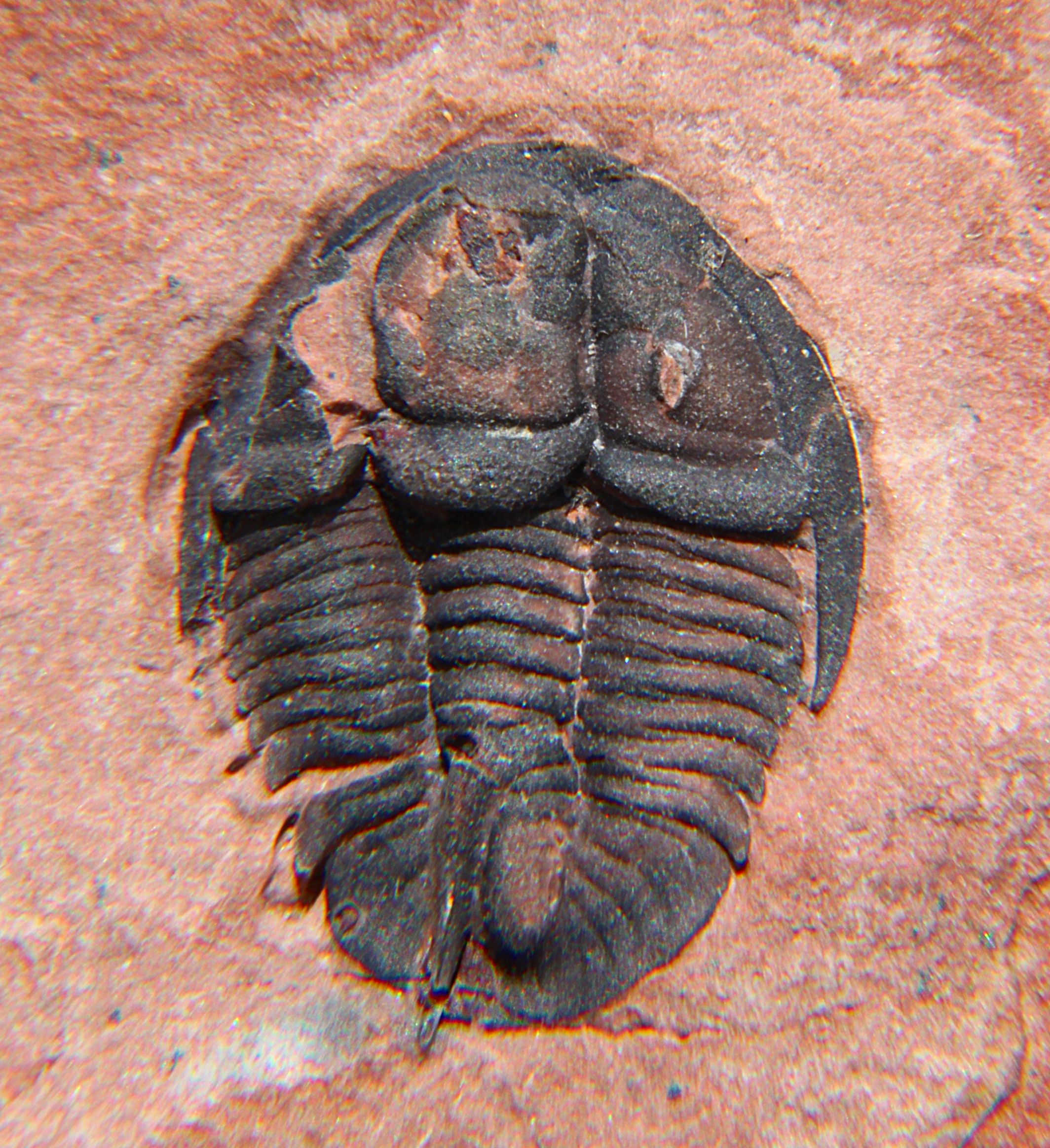 A Genevievella granulosa trilobite, 18mm, Order Ptychopariida, Family Llanoaspididae collected from the Weeks Formation, House Range, Millard County, Utah, USA, from the early Upper Cambrian